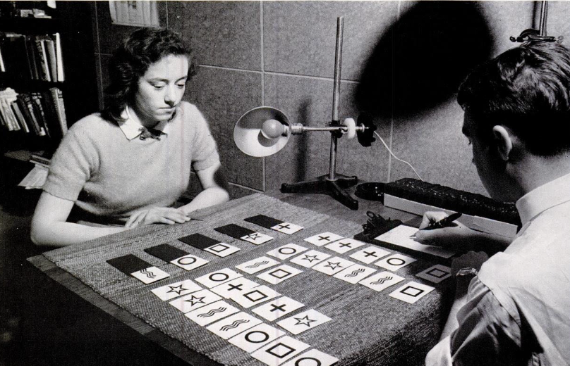 Edyth Hull psychic subject conducting an ESP card experiment.